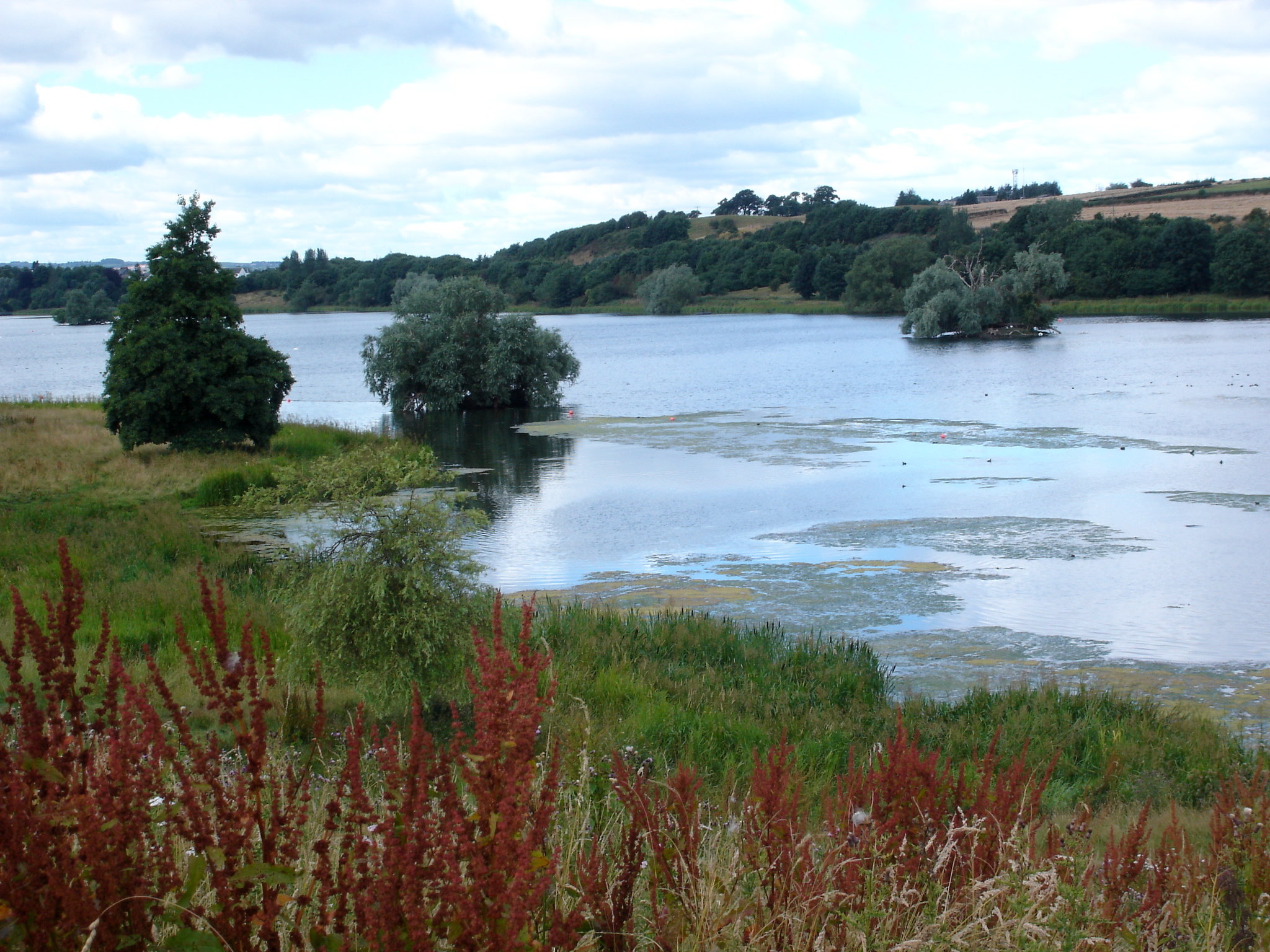 Beautiful loch next to the Linlithgow Palace